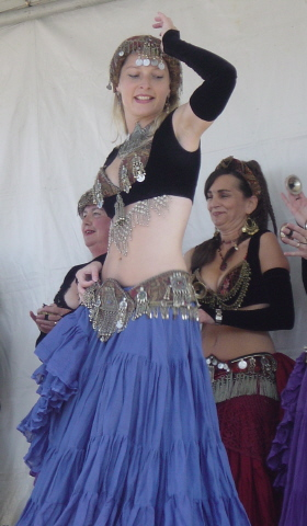 A belly dancer at the Pacific Coast Fog Fest in Pacifica, CA, USA.